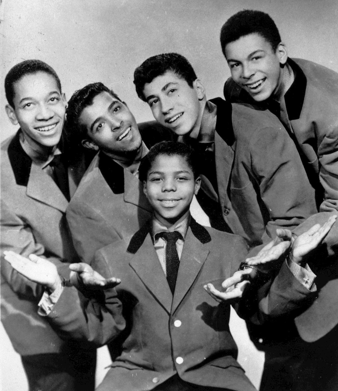 Photo of the 1950s group, Frankie Lymon and The Teenagers.